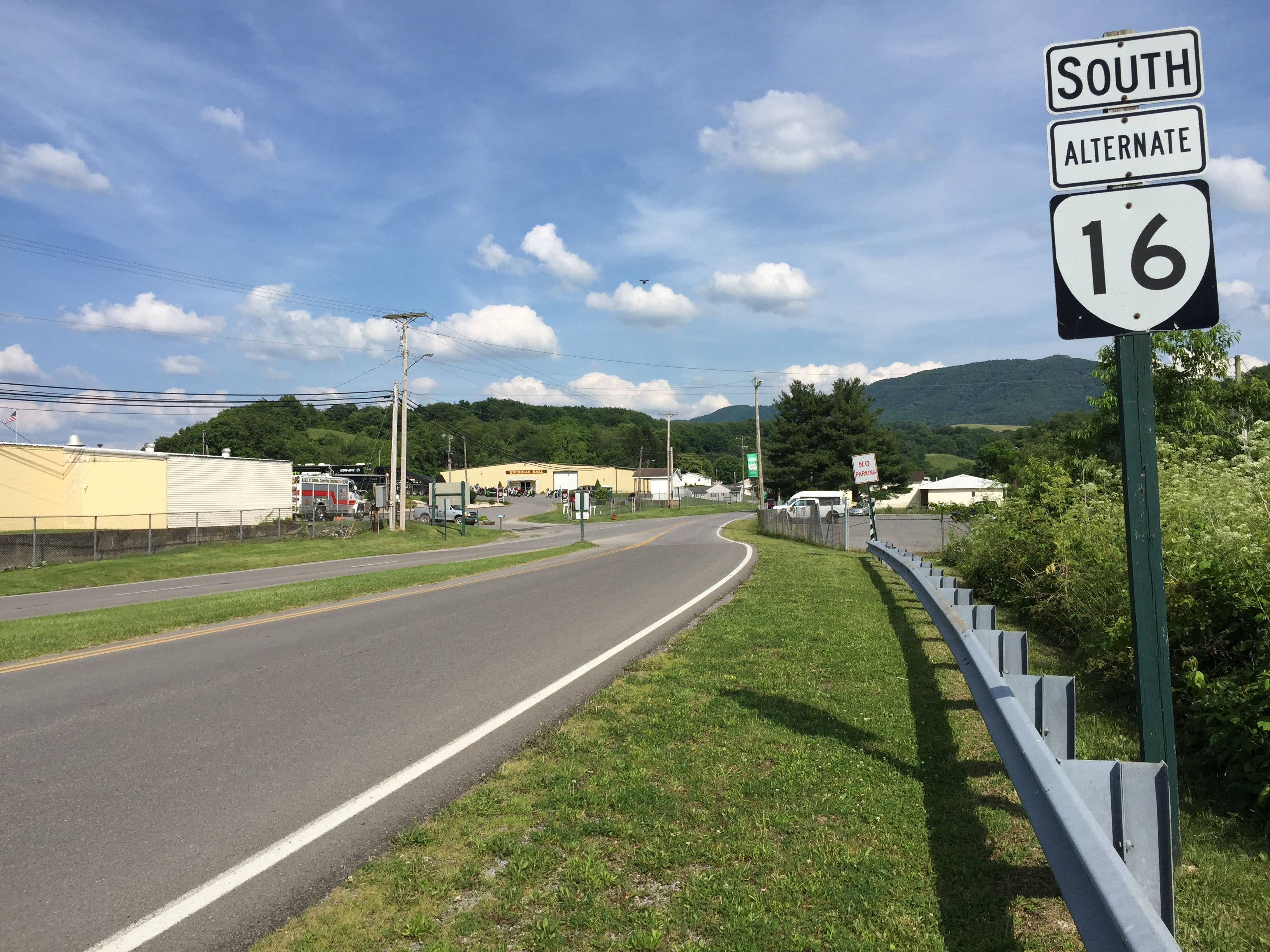 View south along Virginia State Route 16 Alternate (Fairground Road) just south of U.S. Route 19 and U.S. Route 460 (Governor G C Peery Highway) in Tazewell, Tazewell County, Virginia